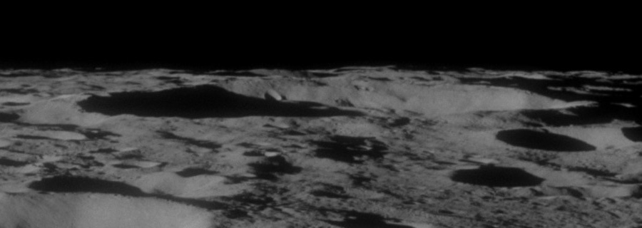 Highly oblique view of Raimond crater, on the far side of the moon. Facing north.